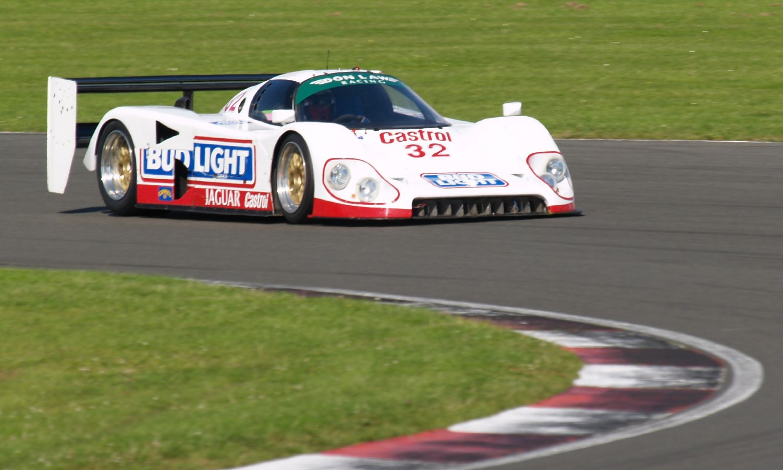 A Jaguar XJR-12D at the Silverstone Classic